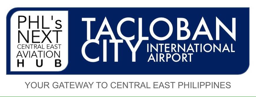 Tacloban City International Airport